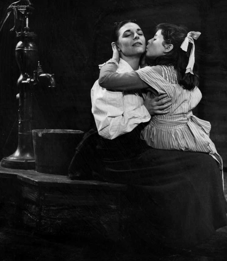 Photo of Anne Bancroft as Annie Sullivan and Patty Duke as Helen Keller from the Broadway play The Miracle Worker. In this scene. Miss Sullivan has finally made a connection with Helen. Despite Helen's fierce tries at fighting her off previously, she shows her gratitude for Miss Sullivan's not giving up on her.